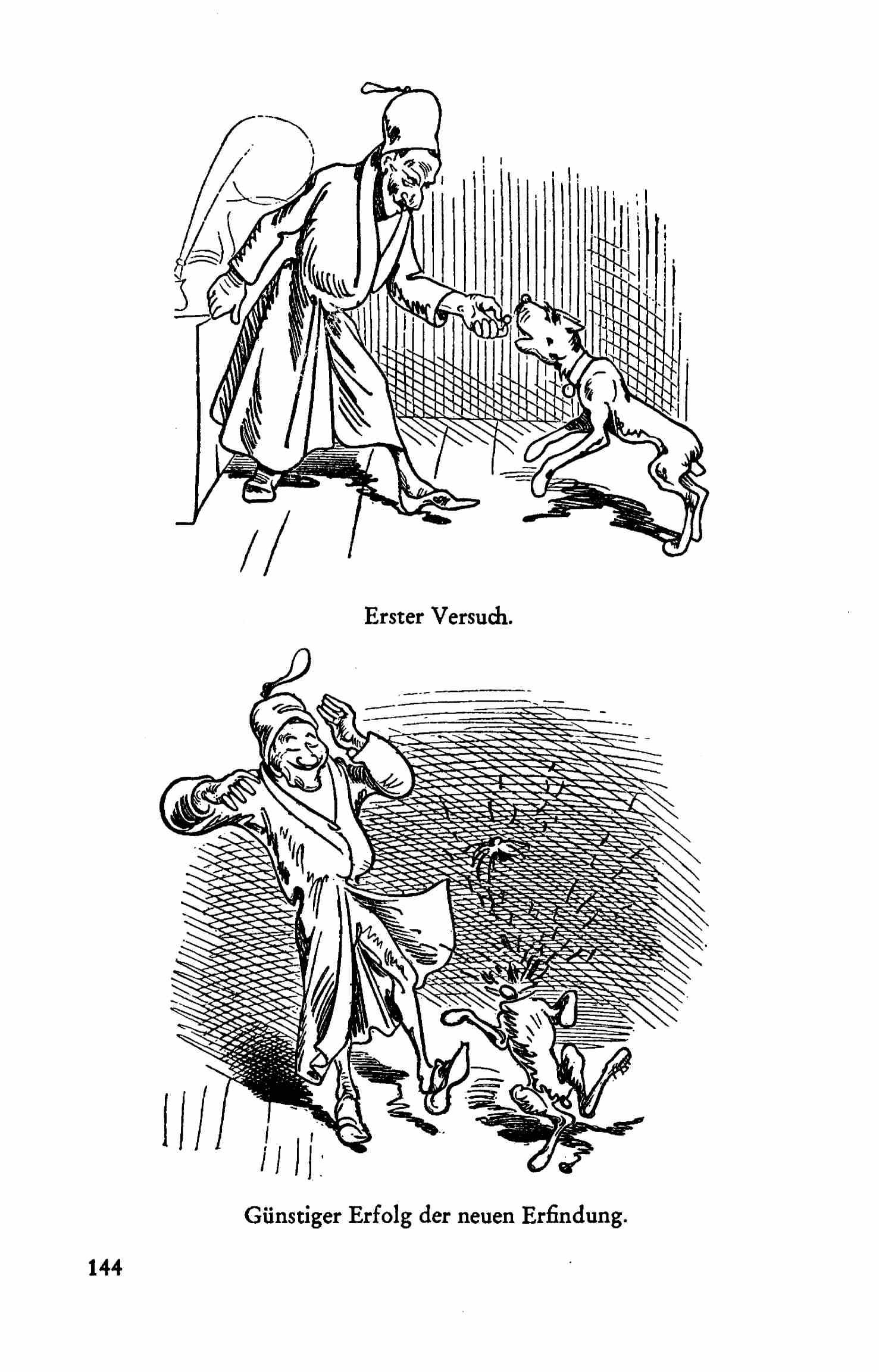 This is a scan of the historical document